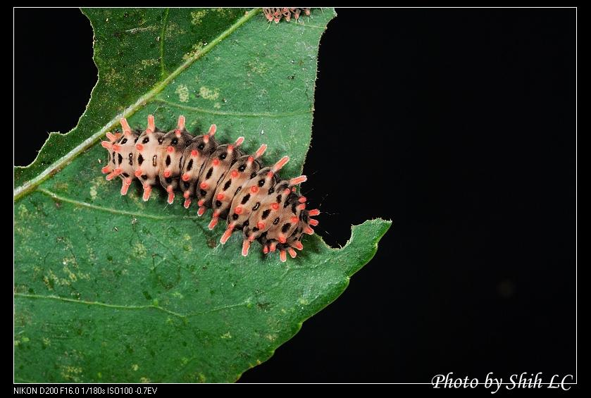 Histia flabellicornis ultima